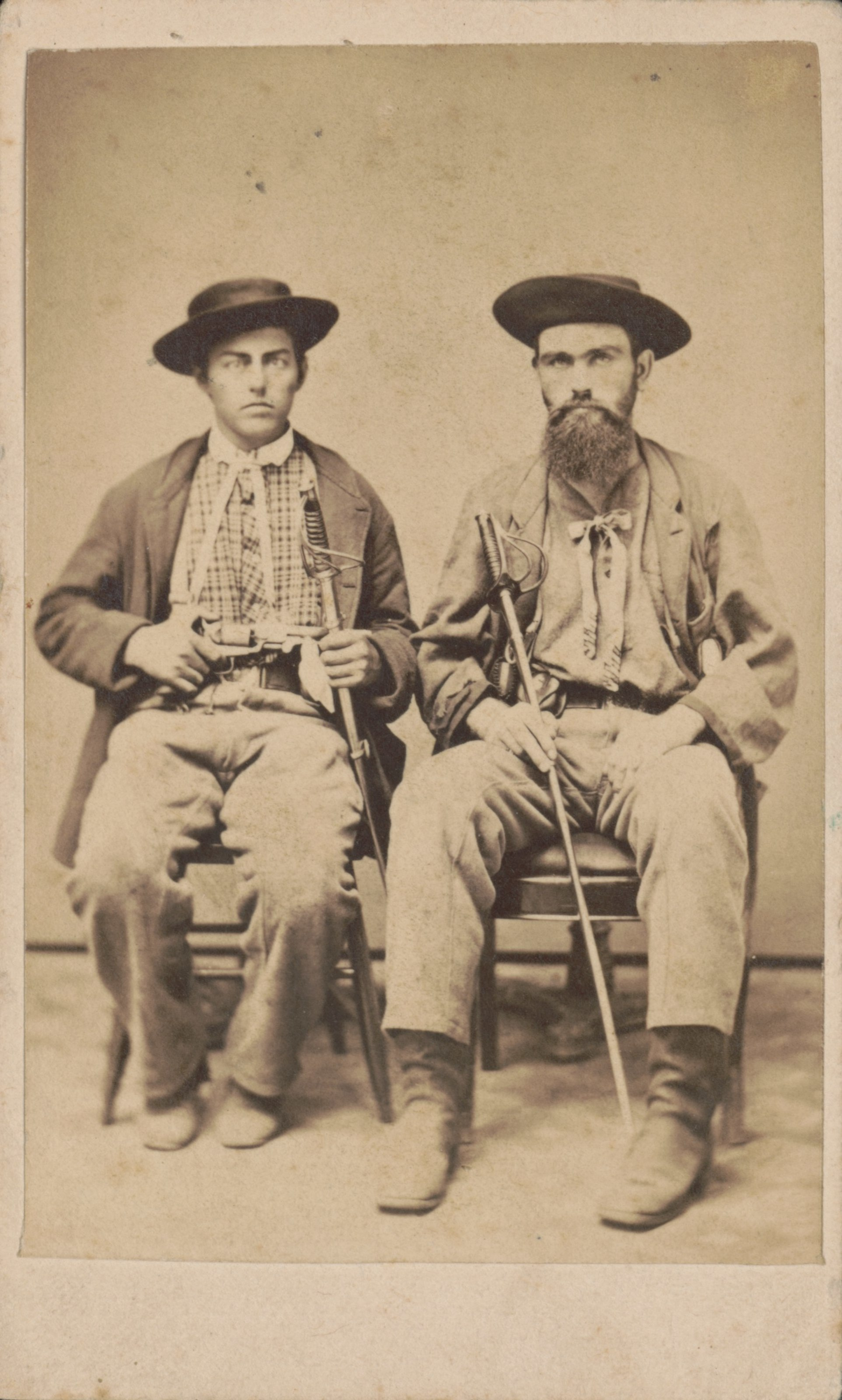 Title: Two unidentified Border Ruffians with swords] / Blackall, photographer, Clinton, Iowa Abstract/medium: 1 photograph : albumen print on card mount ; mount 11 x 6 cm (carte de visite format)